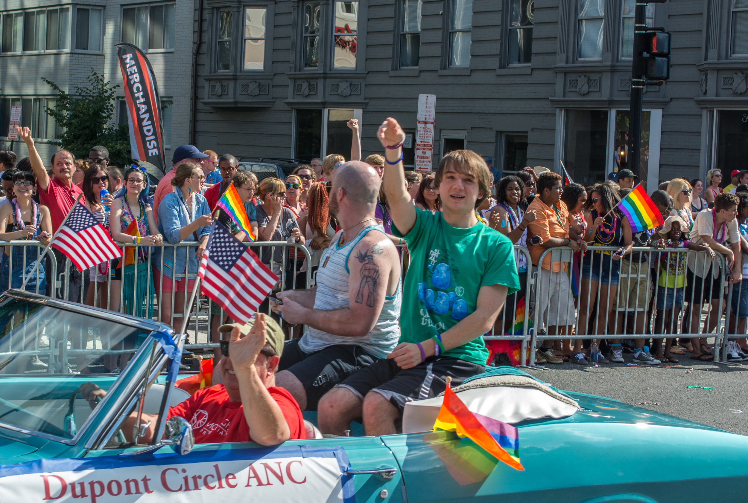 Jack Andraka at the 2014 D.C. Capital Pride parade, held in Washington, D.C., in the United States on June 7, 2014.